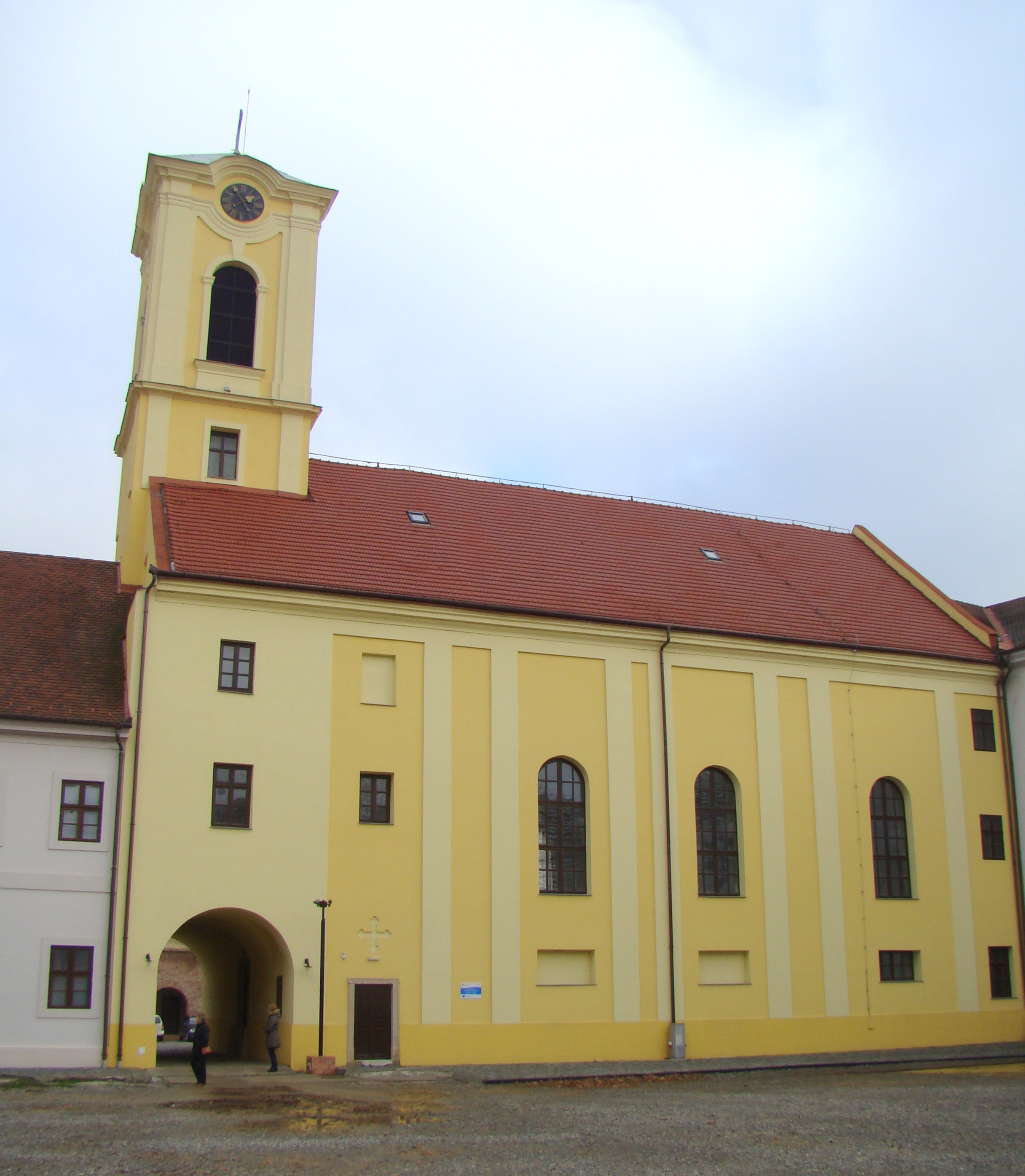 Roman Catholic church in Oradea fortress, Bihor county, Romania